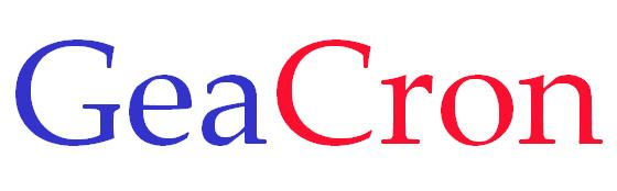 Wordmark of Geacron